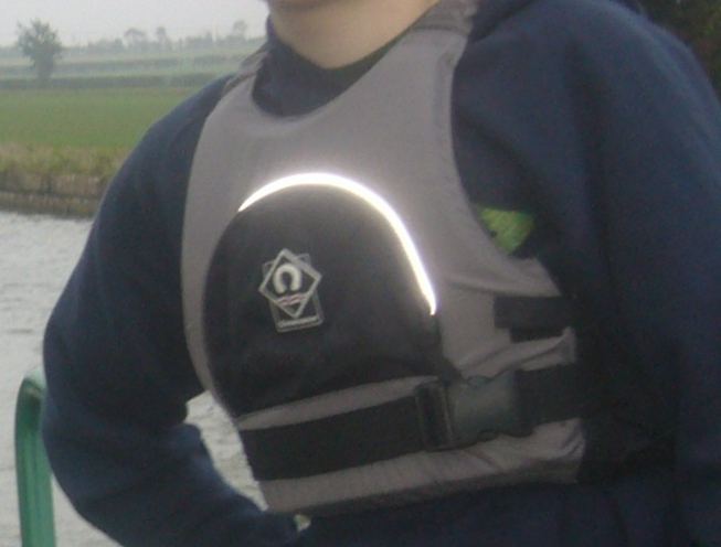 Buoyancy aid